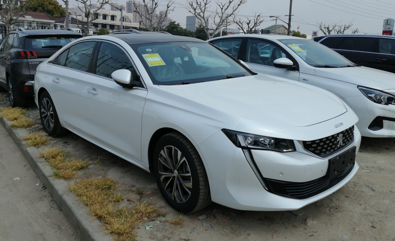 Peugeot 508L photographed in Shanghai, China.